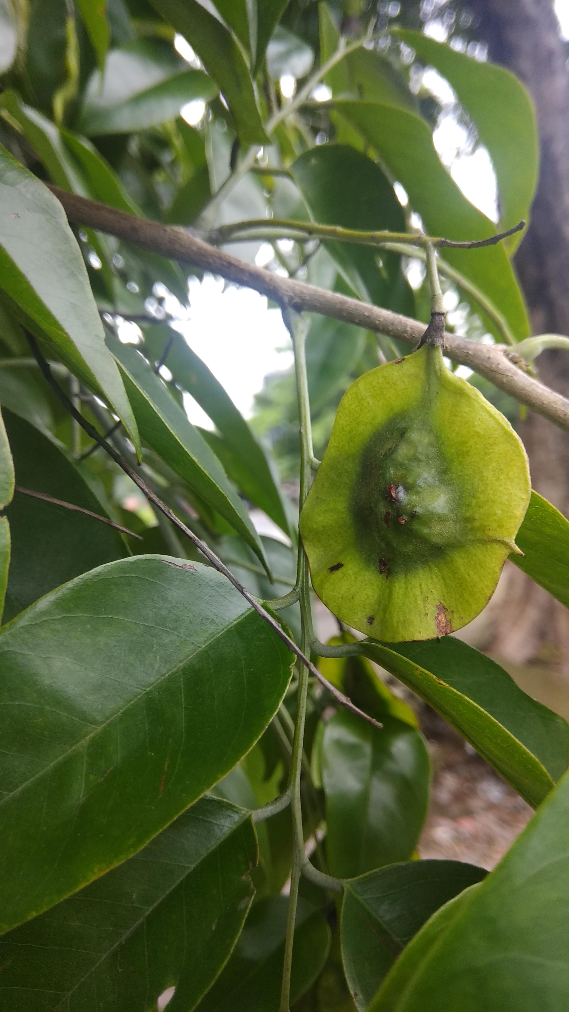 Pterocarpus santalinus